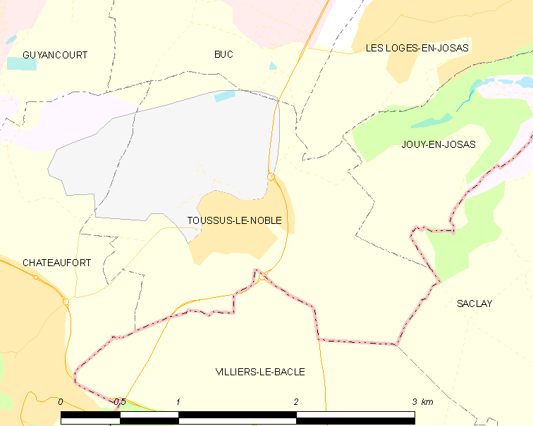 Map of French municipality Toussus-le-Noble